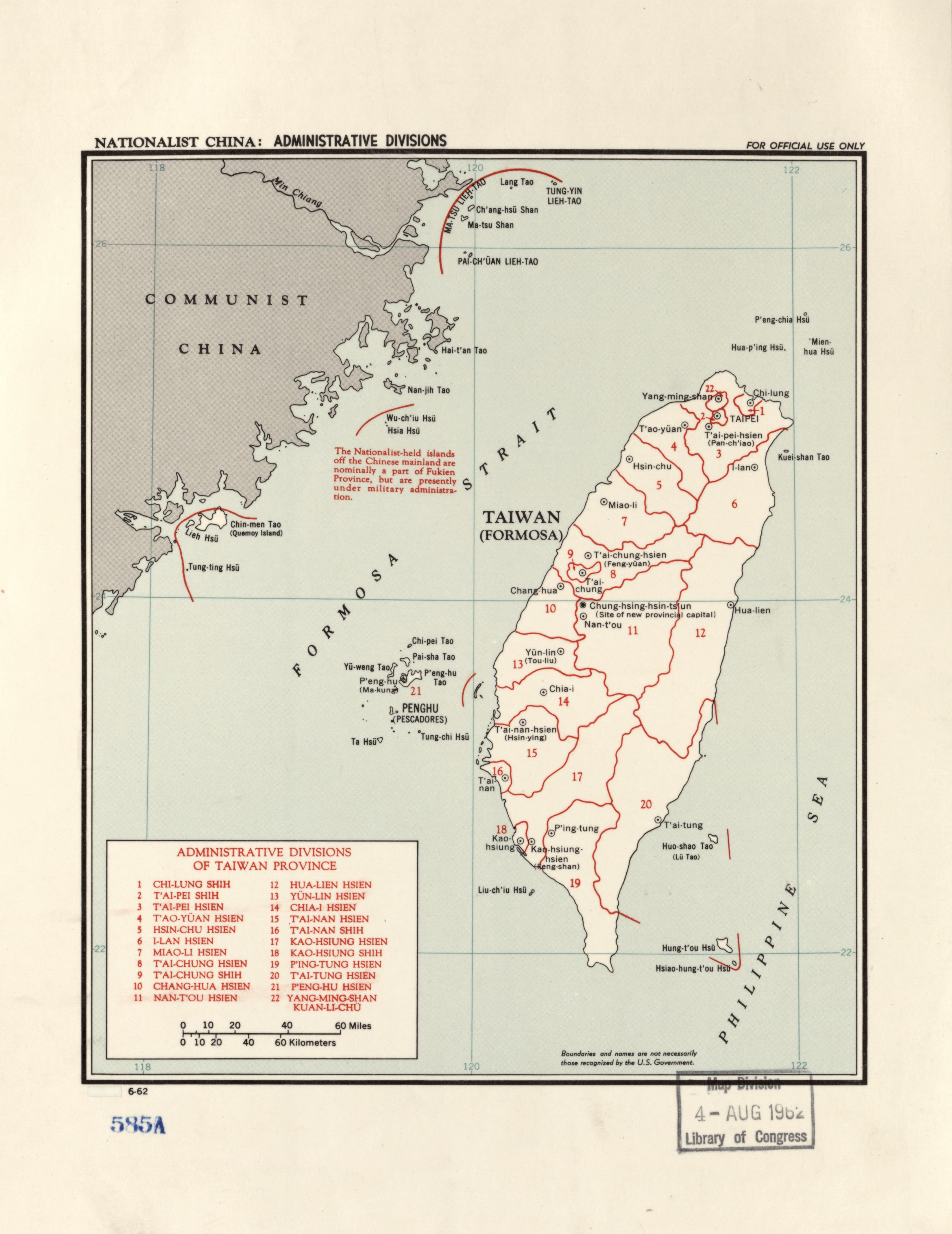 "For official use only." "6-62." LC copy mounted on cloth backing. LC copy stamped on: 585A. Available also through the Library of Congress Web site as a raster image.